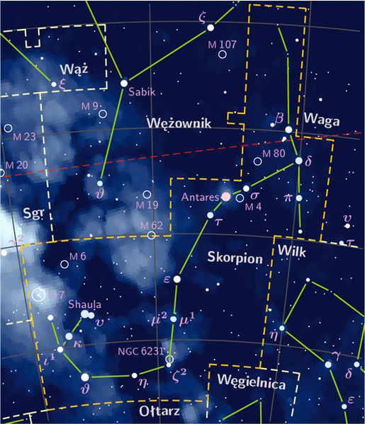 Scorpius constelation. Legenda[edit] Gwiazdy zostały oznaczone jasnymi kółkami, których promień powiązany jest z ich obserwowaną jasnością, a kolor pokazuje barwę światła danej gwiazdy. Jasnoszarym tekstem oznaczono polskojęzyczne nazwy gwiazdozbiorów bądź, w przypadku braku miejsca, skróty ich nazw łacińskich. Purpurowo opisane zostały nazwy lub oznaczenia gwiazd oraz innych obiektów. Białe okręgi (lub elipsy) pokazują rozmiary niektórych obiektów (np. galaktyk lub gromad otwartych) Granice gwiazdozbiorów zaznaczone są przerywaną, jasnożółtą linią, a granice aktualnie prezentowanego gwiazdozbioru - linią jasnopomarańczową. Linie łączące poszczególne gwiazdy w obrębie gwiazdozbiorów są koloru zielonego. Drogę Mleczną ukazano jako zmiany koloru tła od ciemnego granatu do jasnego błękitu. Czerwoną linią przerywaną oznaczona jest ekliptyka. Białym tekstem opisane zostały większe powierzchniowo obiekty takie, jak Obłoki Magellana, czy gromada galaktyk w Pannie. Linie ukazujące kształty gwiazdozbiorów zostały dobrane arbitralnie, jednak z akcentem na spójność z dostępnymi źródłami polskojęzycznymi, oraz, w niektórych przypadkach, tak, by bardziej odpowiadały nazwie gwiazdozbioru. Wyznaczone zostały one na podstawie następujących źródeł: książki "Niebo na dłoni" Eduarda Pitticha i Dusana Kalmancoka, książki "Nasze gwiazdozbiory" Josipa Kleczka, obrotowej mapy nieba opracowanej przez PTMA Kraków oraz programów SkyGlobe i Celestia.